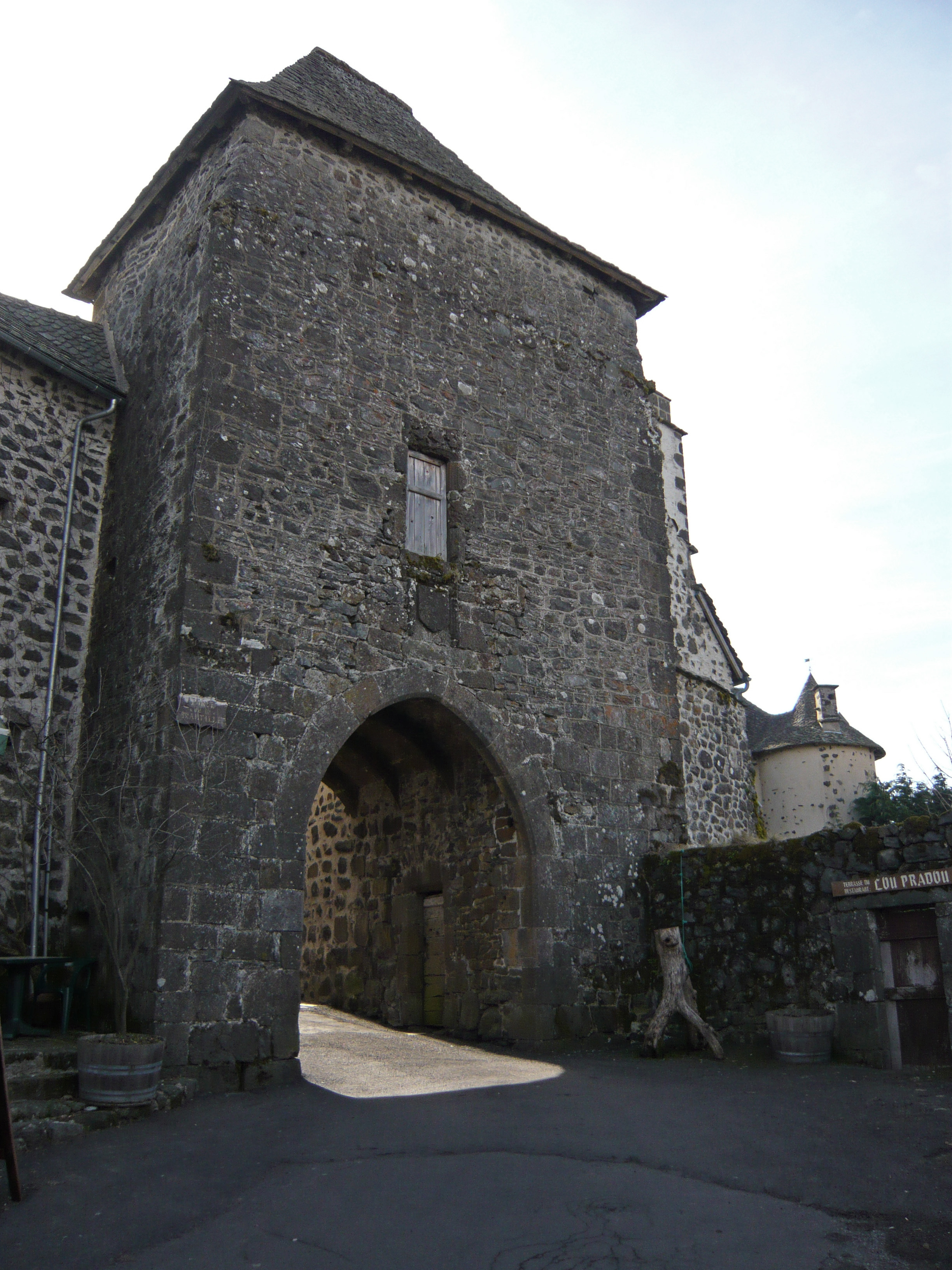 The town door Martill, seen from outside of the rampart.